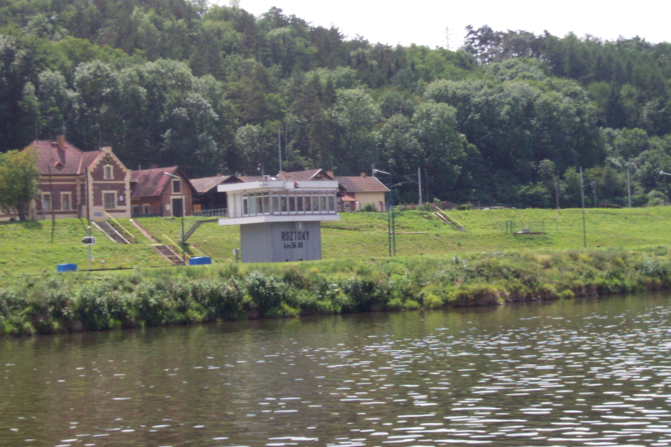 Canal in Klecany and Roztoky u Prahy